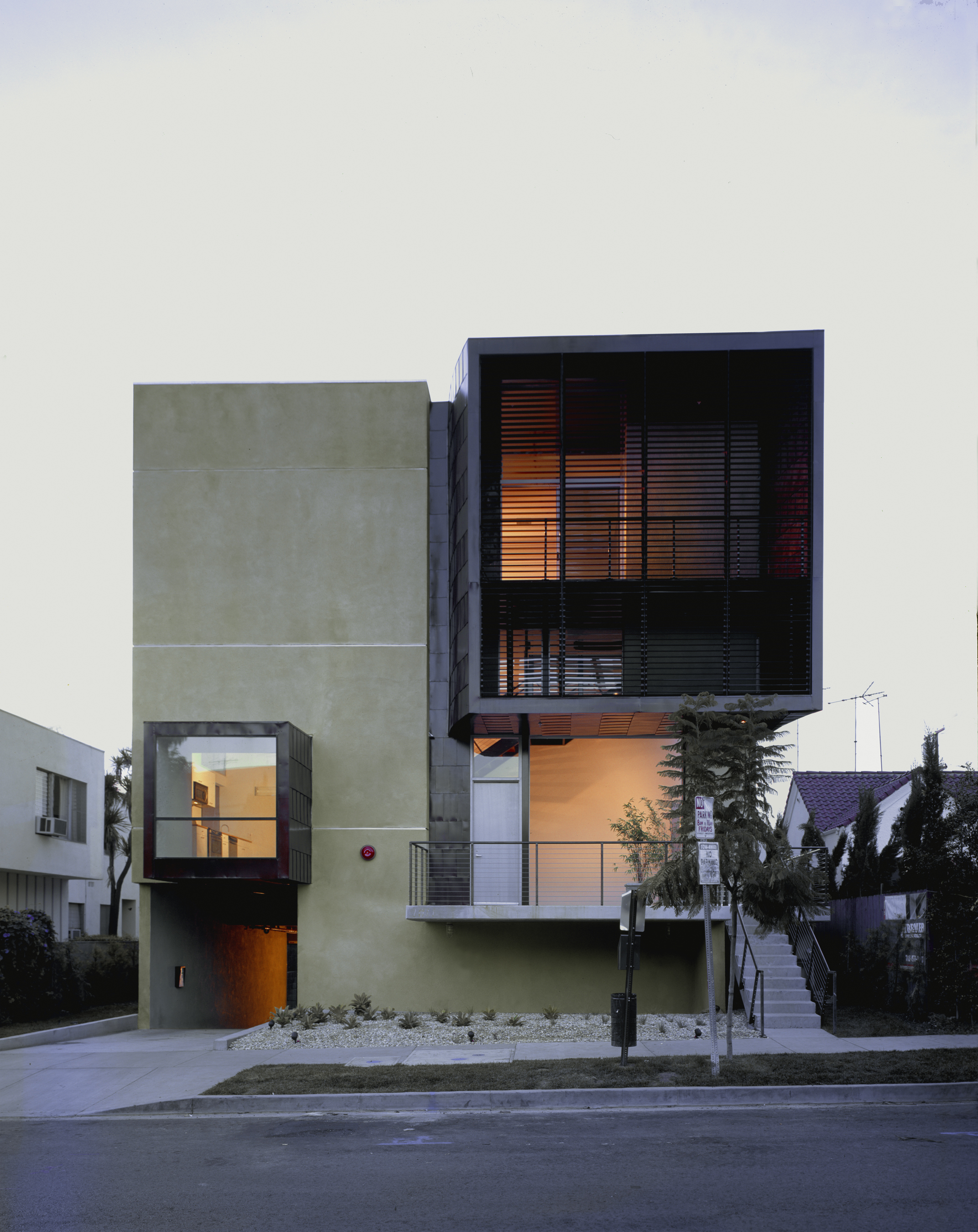 A small urban infill multi-unit housing project located in the City of West Hollywood.